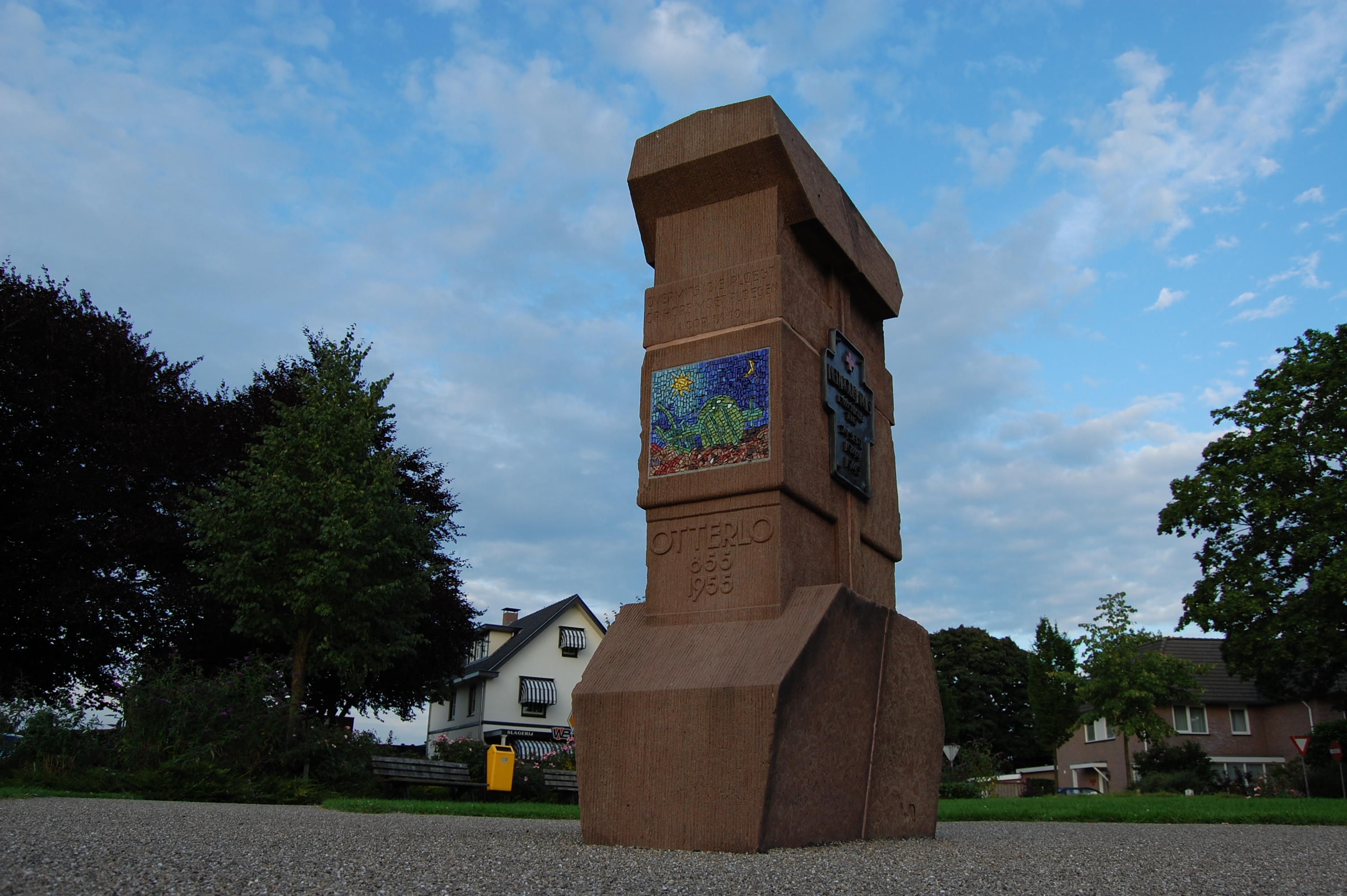 Red Cross memorial, Harskamperweg by 16 Otterlo NL.